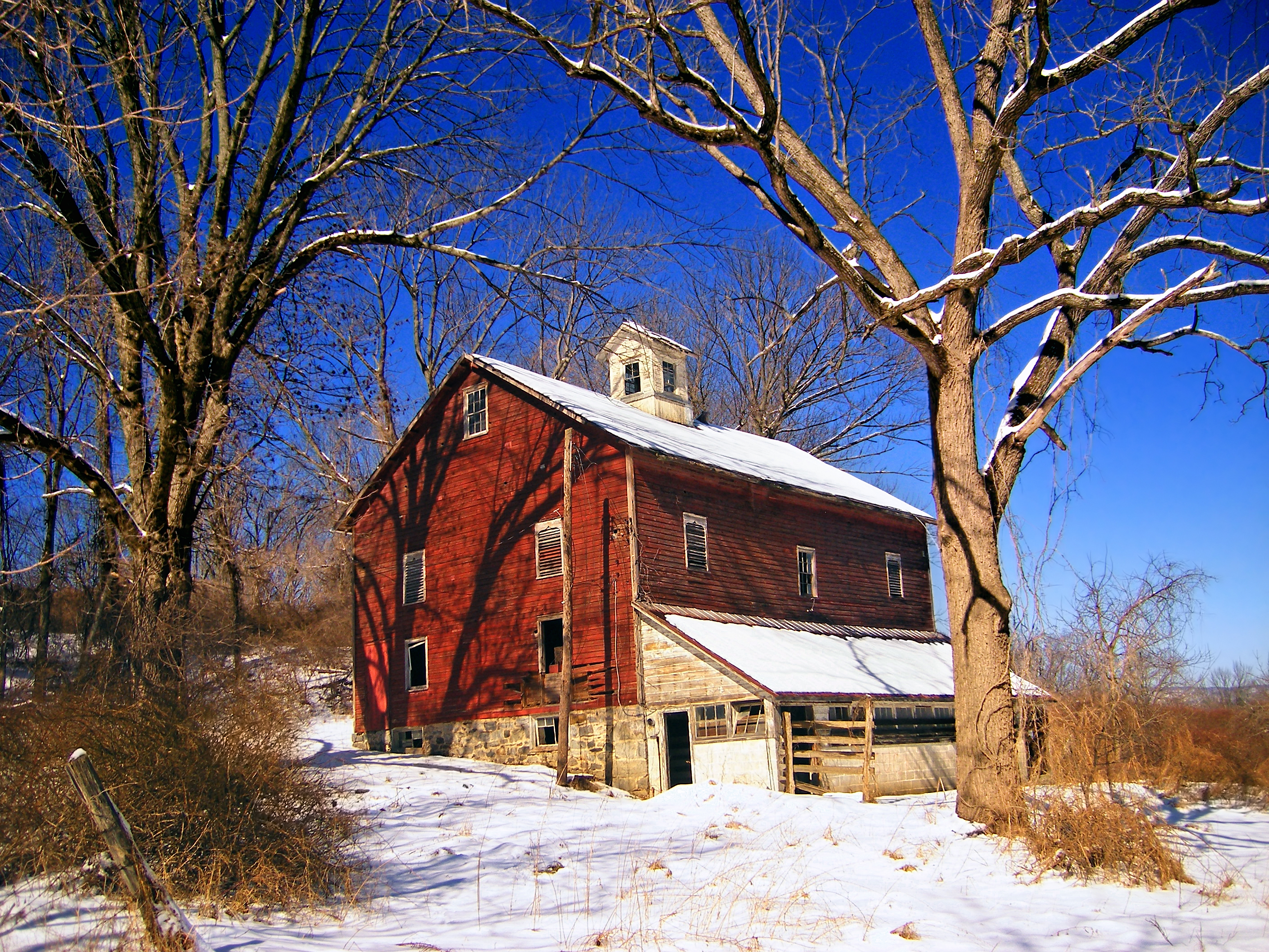 Roadside barn (possibly abandoned), Knowlton Township, Warren County.